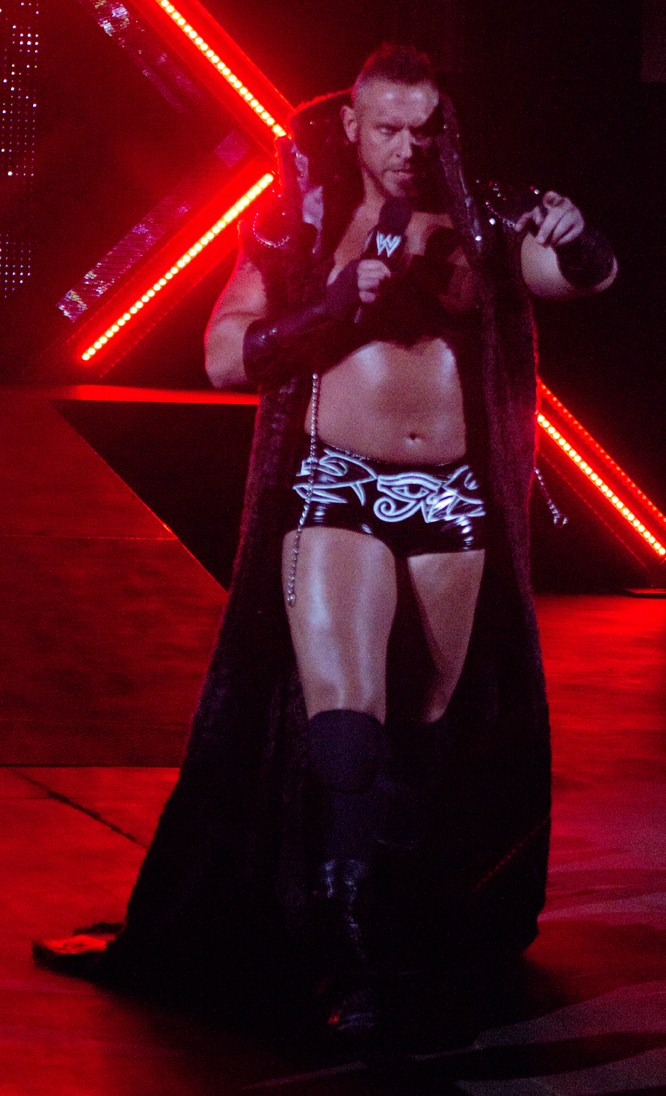 Conor O'Brian makes his entrance during a WWE house show on February 2, 2013 in Montgomery, Alabama.